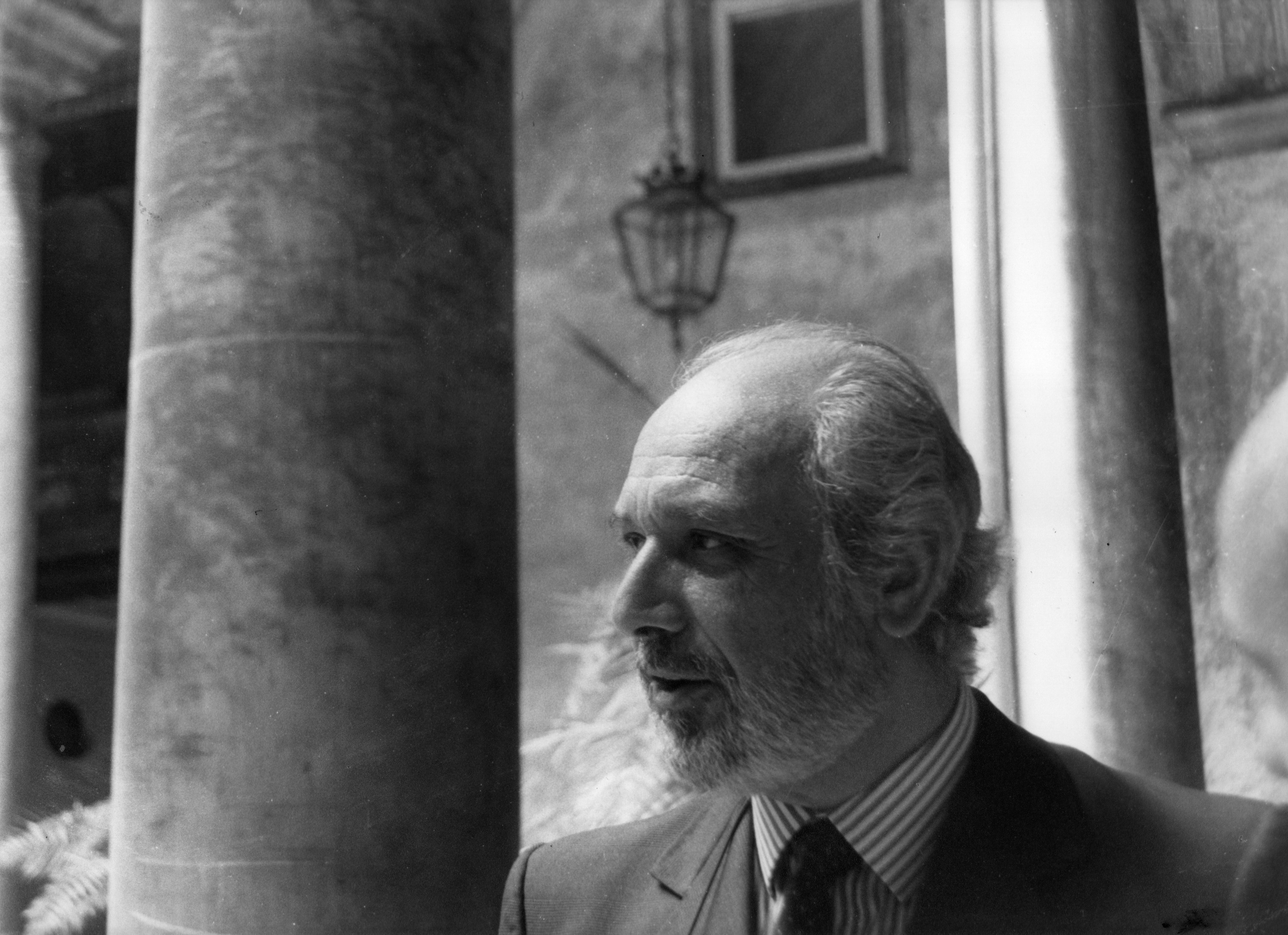 Giorgio Devoto alla presentazione del volume del poeta Adonis